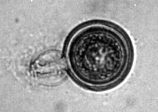 An oospore of Phytophthora infestans - the causal agent of potato late blight. Photo by Fk.